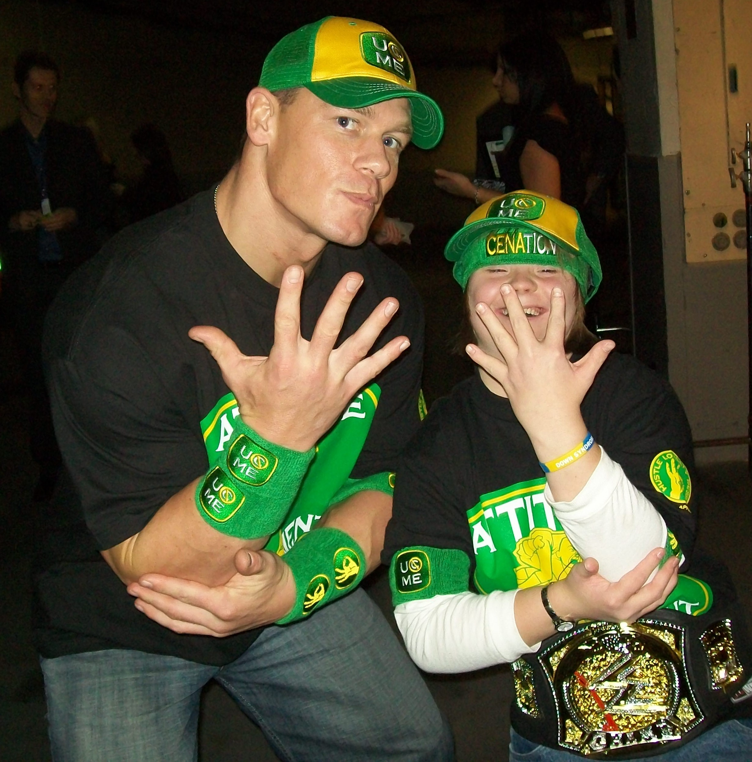 John Cena and wish child Savannah taken during the wish that was granted in 2009, that Kids Wish Network facilitated. The photo shows John Cena and wish child Savannah side by side as they pose performing the "you can't see me" pose that he has become famous for using during his wrestling matches.